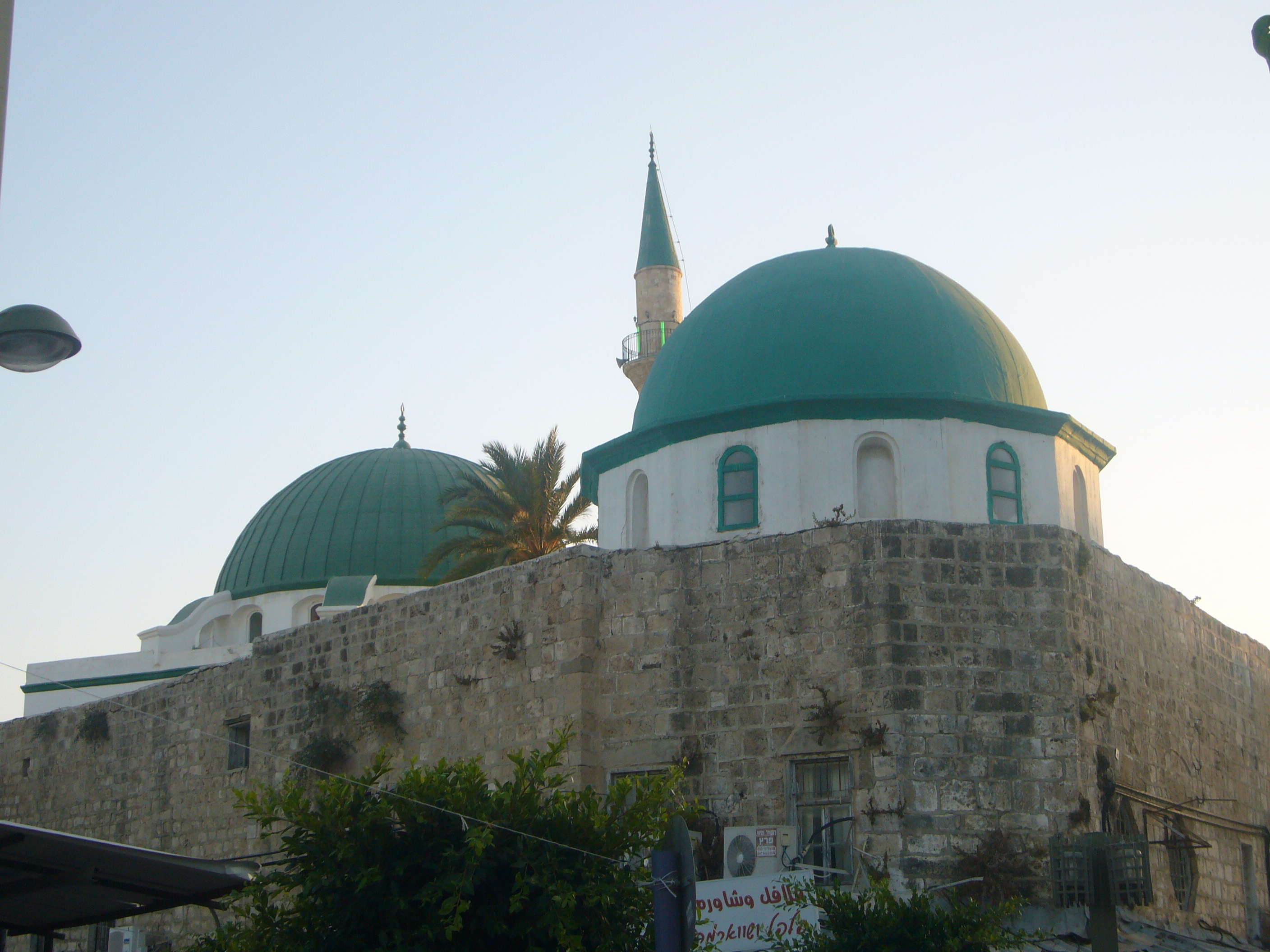 The Mosque of Jezzar Pasha